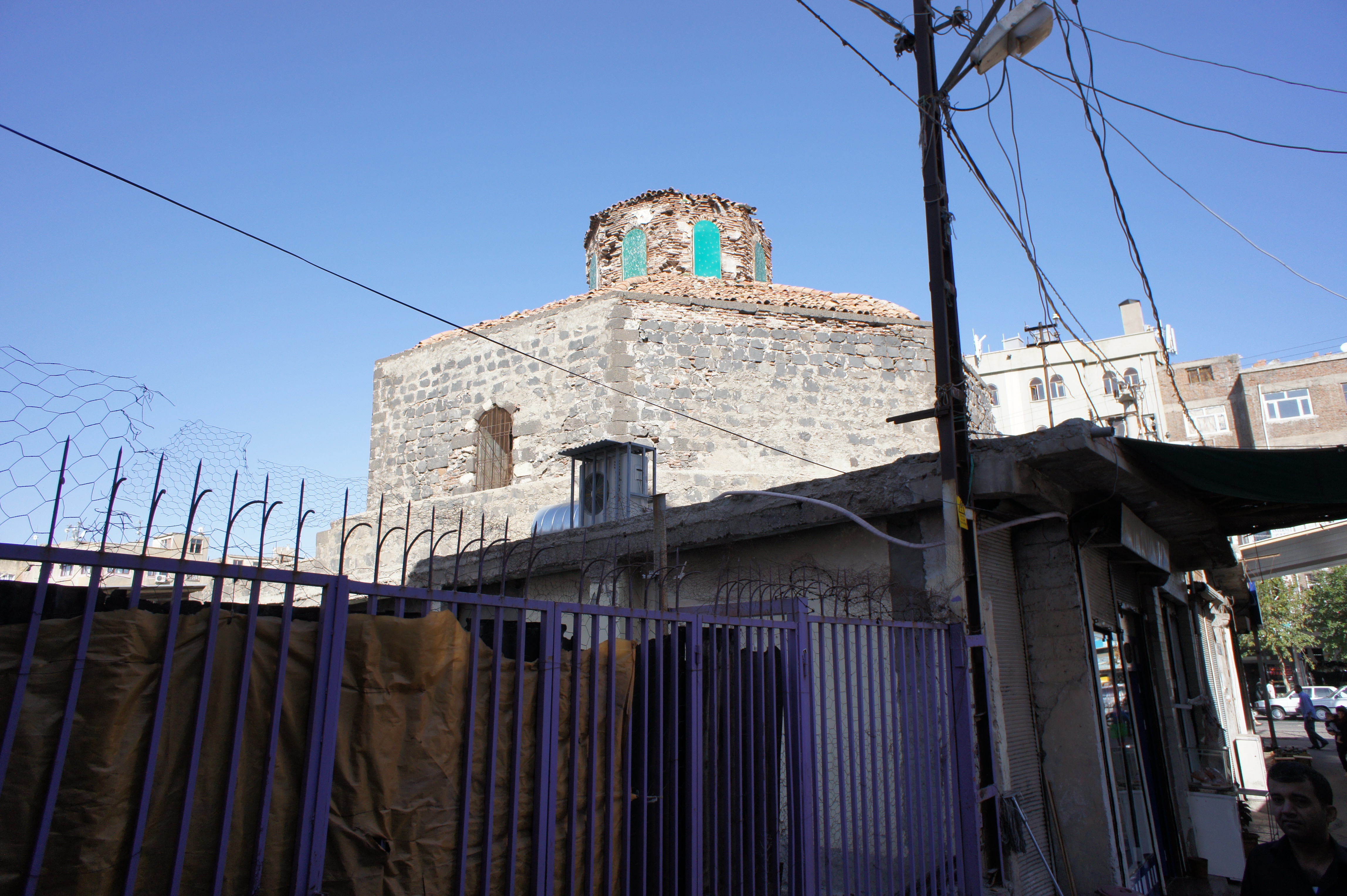 Melik Ahmed Public Bath, Diyarbakır, Diyarbakır Province, Turkey Kurdî: Hemama Melik Ahmed Paşa, Amed, Tirkiye, 2010.